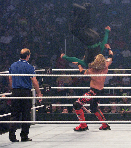 Jeff's signature move